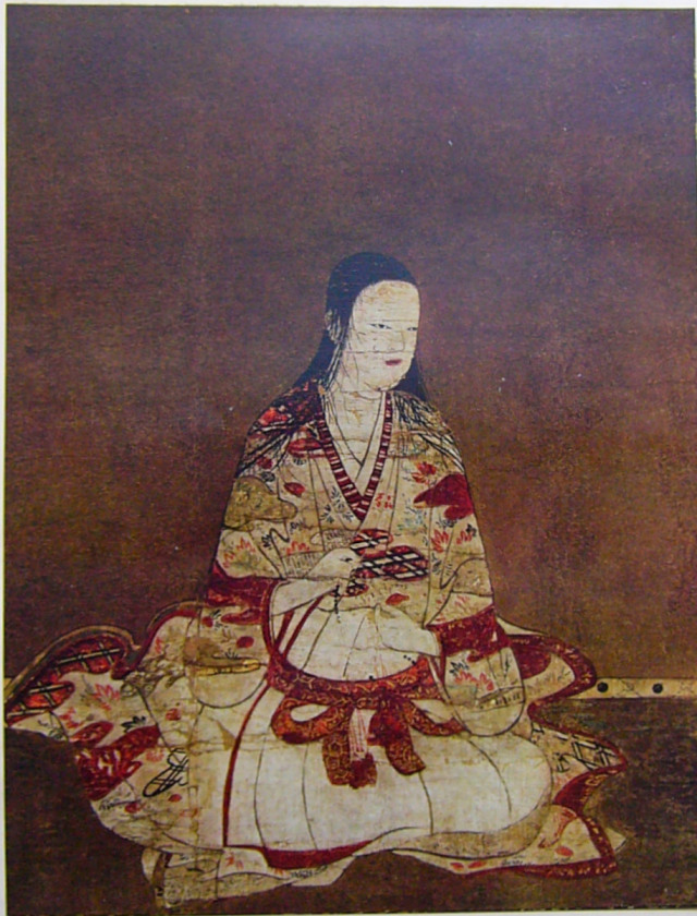 Portrait of Lady, Color on paper, 54x38.6cm YAMTOBUNNKAKAN, NARA, late16th century, Japan